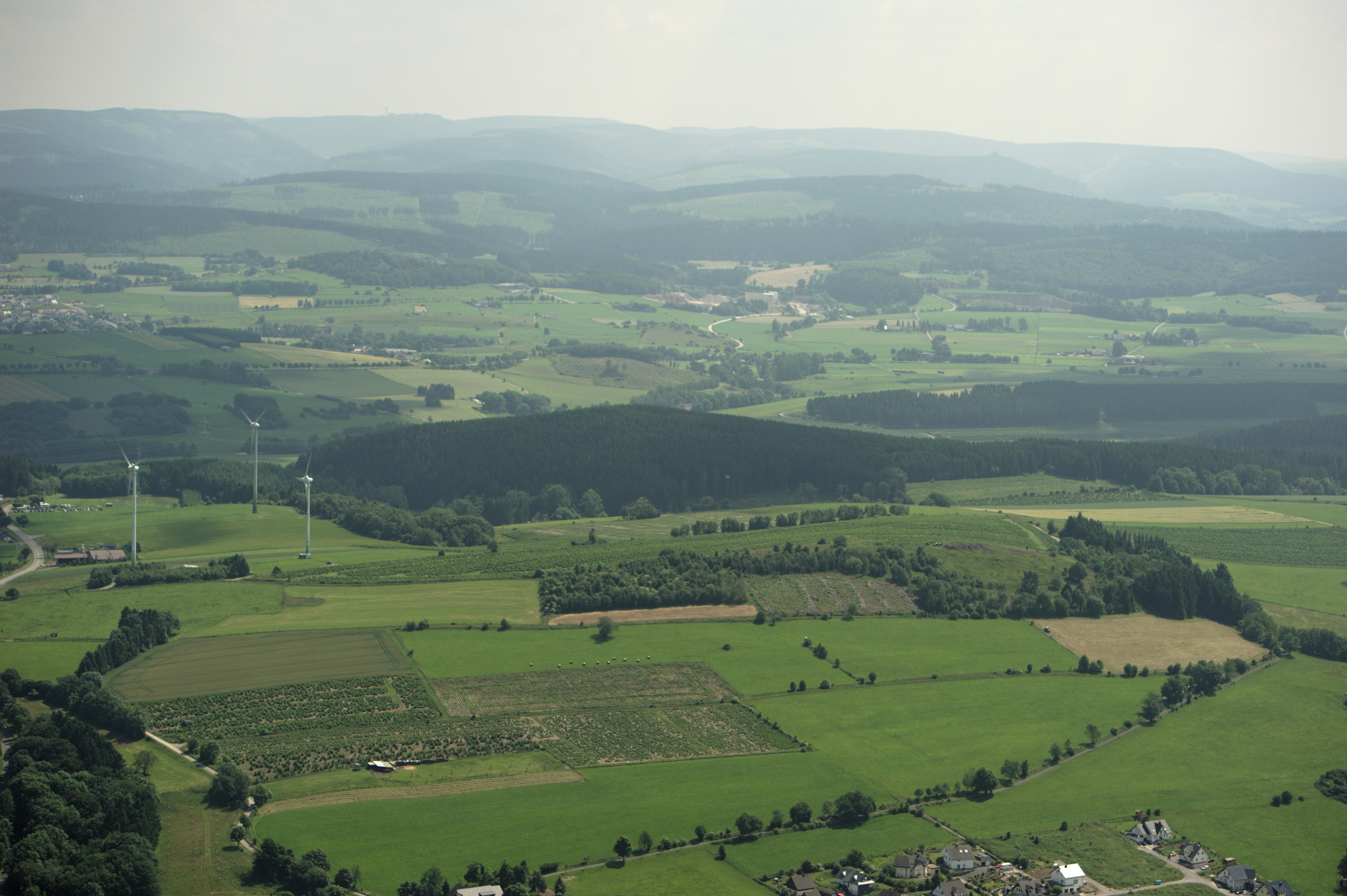 Fotoflug Sauerland-Ost; Sonder bei Scharfenberg (Stadt Brilon), Aufnahme Richtung Süden The making of this document was supported by the Community-Budget of Wikimedia Germany.